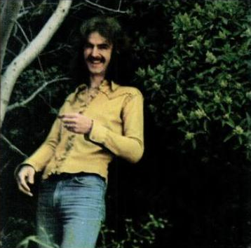 Trade ad for Ken Tobias' single "Fly Me High". To better adapt it to his respective Wikipedia article, the ad was cropped and cleaned in a graphics editing program. The original can be viewed at the source below.